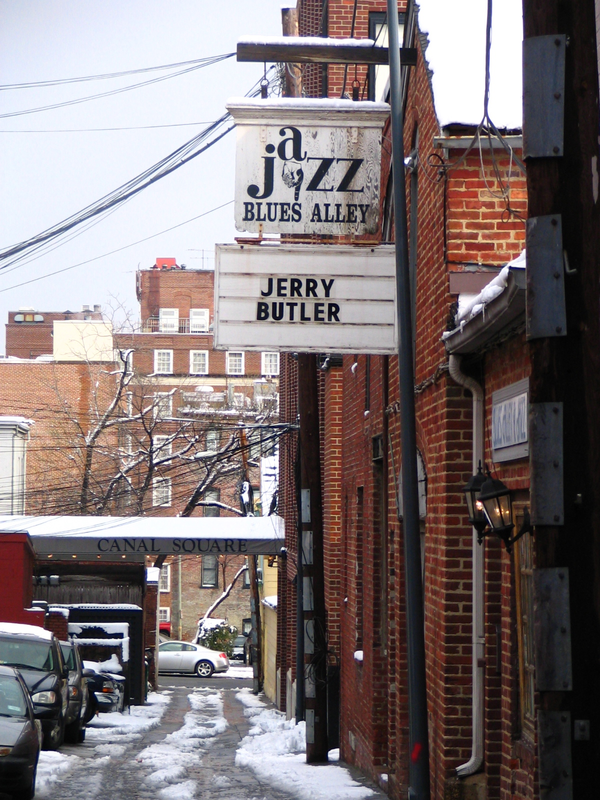 Such a wonderful old hole-in-the-wall - a place where jazz greats past and present hold command on a regular basis. See a similar photo in sepia here .